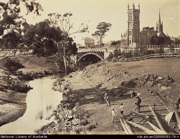 View of Sunter Street bridge over the River Angas with St Andrews Church behind, at Strathalbyn, South Australia, facing north east